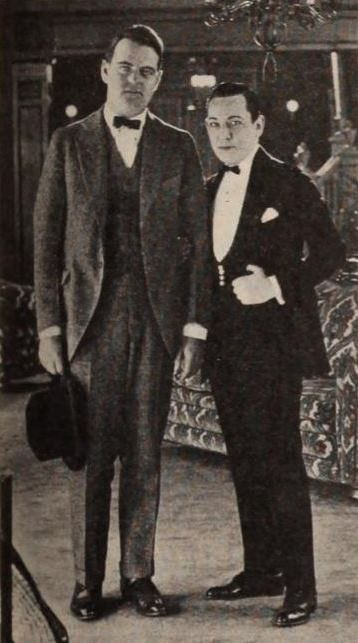 Film magazine publisher Martin J. Quigley and actor Carter DeHaven at the Charley Chaplin studios, on page 41 of the December 4, 1920 Exhibitors Herald.